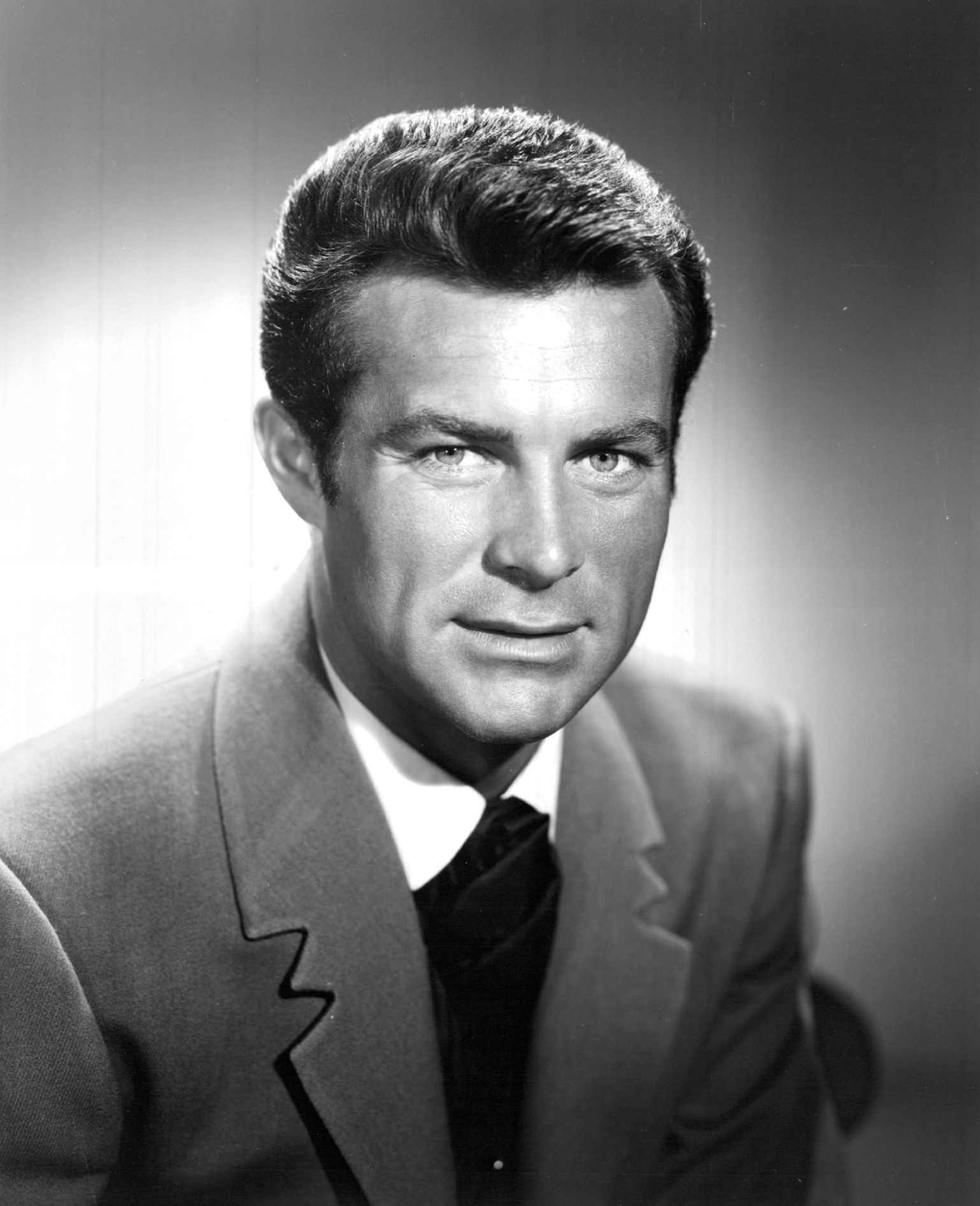 Photo of Robert Conrad.